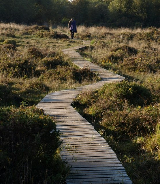 Duckboard walk, South Tawton Footpath 46. This zig-zag stretch can be seen in the background of 996771.